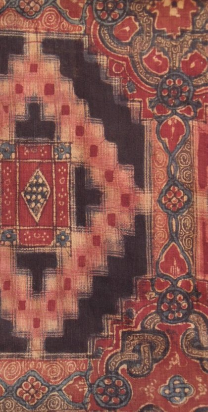 HOMESPUN COTTON, KASURI-RESIST DYED IN INDIGO AND MADDER HANDWOVEN, HAND-PAINTED MORDANT-DYED, RESIST-DYED AND HAND-PAINTED COROMANDEL COAST OF INDIA FOR THE JAPANESE MARKET, 17C/18C private collection, Horyu-ji, Nara